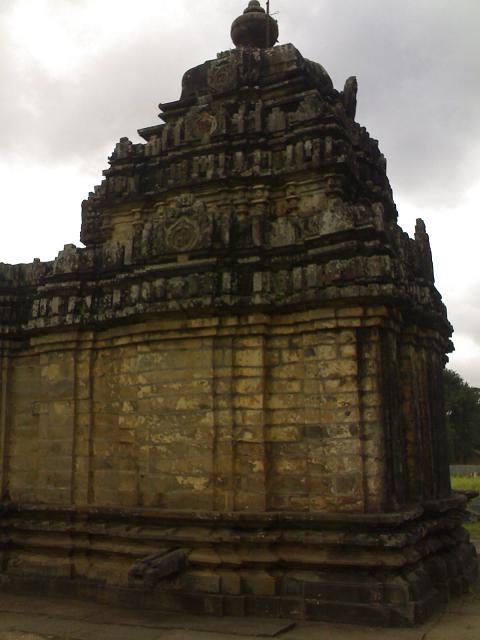 Tamboor Basavanna temple, near Kalghatgi Author and Source : Manjunath Doddamani, Gajendragad, Karnataka (North), India